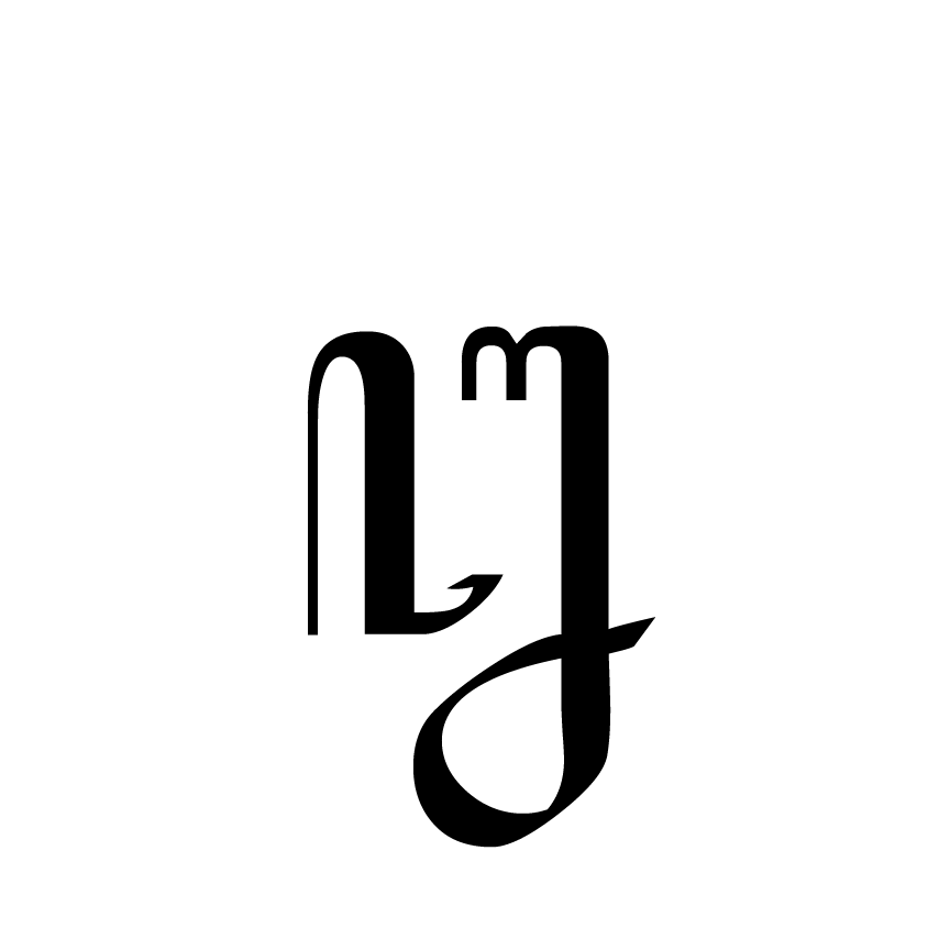 Special letter 'Le' of Javanese script in Yogyakarta style.